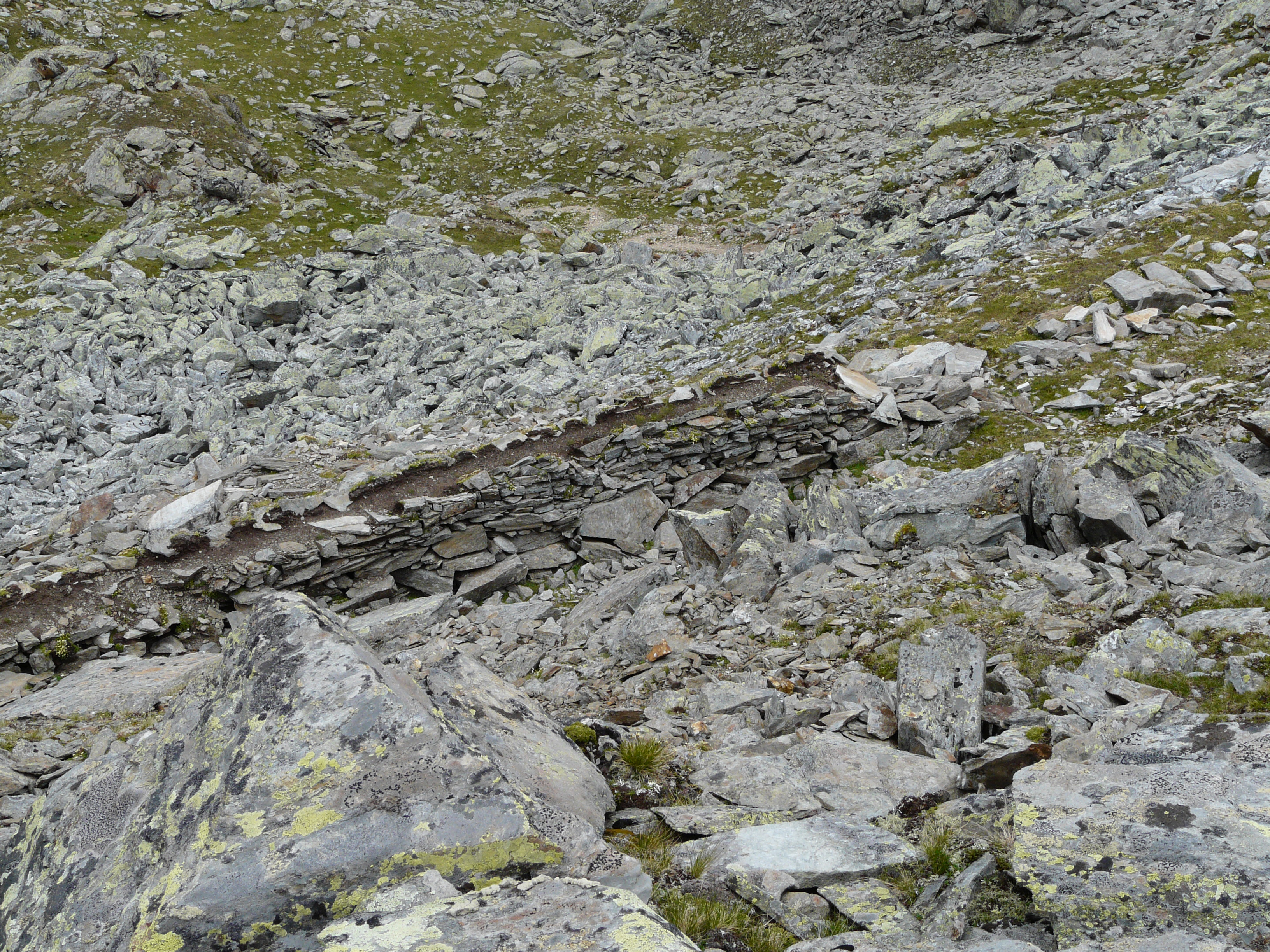 Goldrainer Jochwaal: Rests of the former irrigation canal. Today the water is transported in a pipe to Niederjöchl (2662 m) and then to Vinschgau.